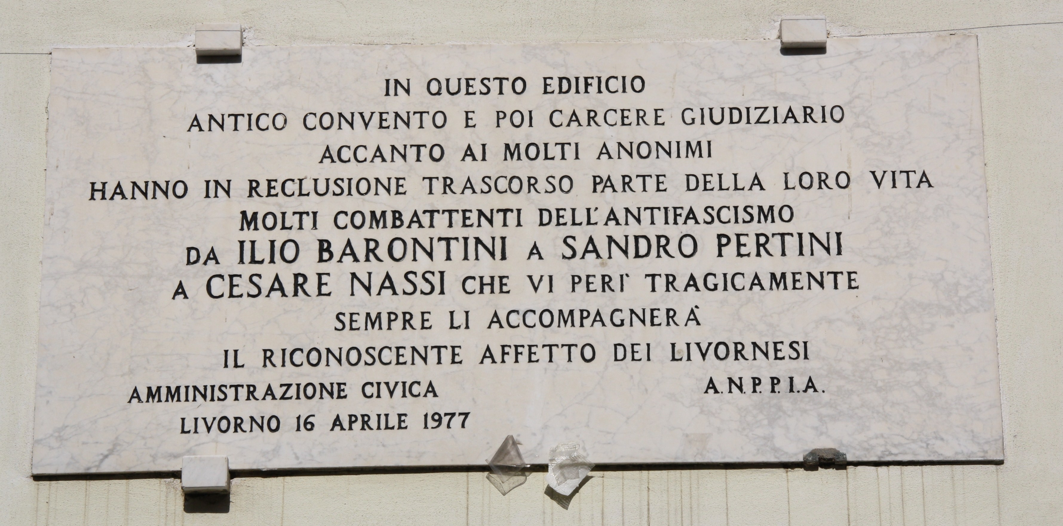 Italy, Livorno, Scali del Refugio, Palazzo dei Domenicani. The plaque to remember the former Italian president Sandro Pertini who was imprisoned in this building once a Domenican convent then a jail.